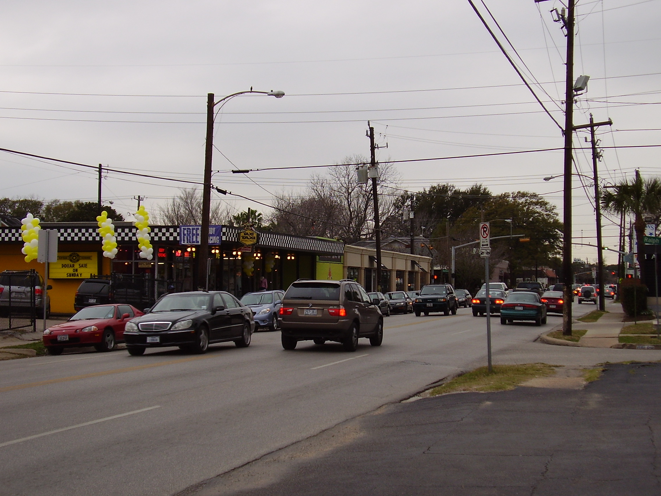 This picture was taken towards the southwest on the 1600 block of Westheimer, Montrose, Houston. The perpendicular street at the stoplight-regulated intersection is Dunlavy.